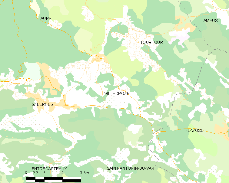 Map of French municipality Villecroze